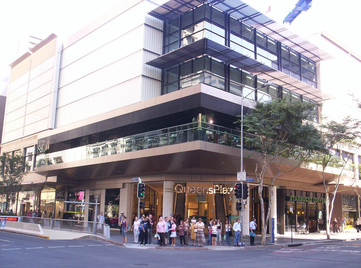 Queens Plaza Edward Street and Adelaide Street, Brisbane ( this photograph was taken by Figaro )